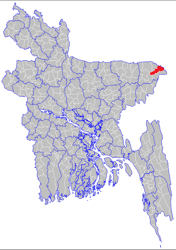 Location of Kanaighat in Bangladesh